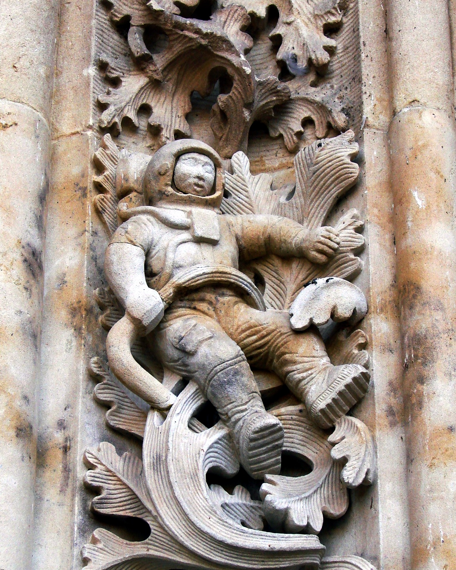 Sculpture of astronaut added to New Cathedral, Salamanca, Spain, during renovations in 1992